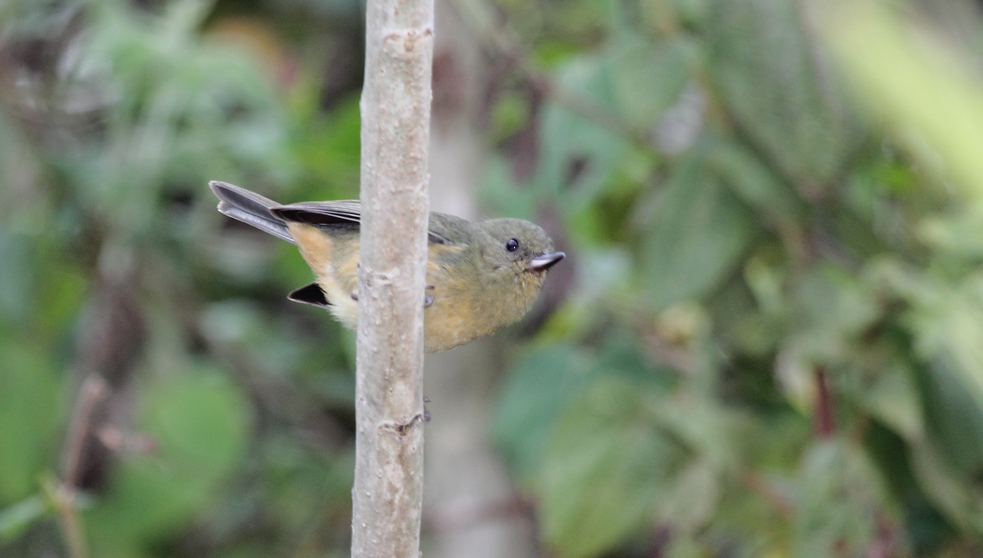 Cinnamon-bellied Flowerpiercer (Diglossa baritula)